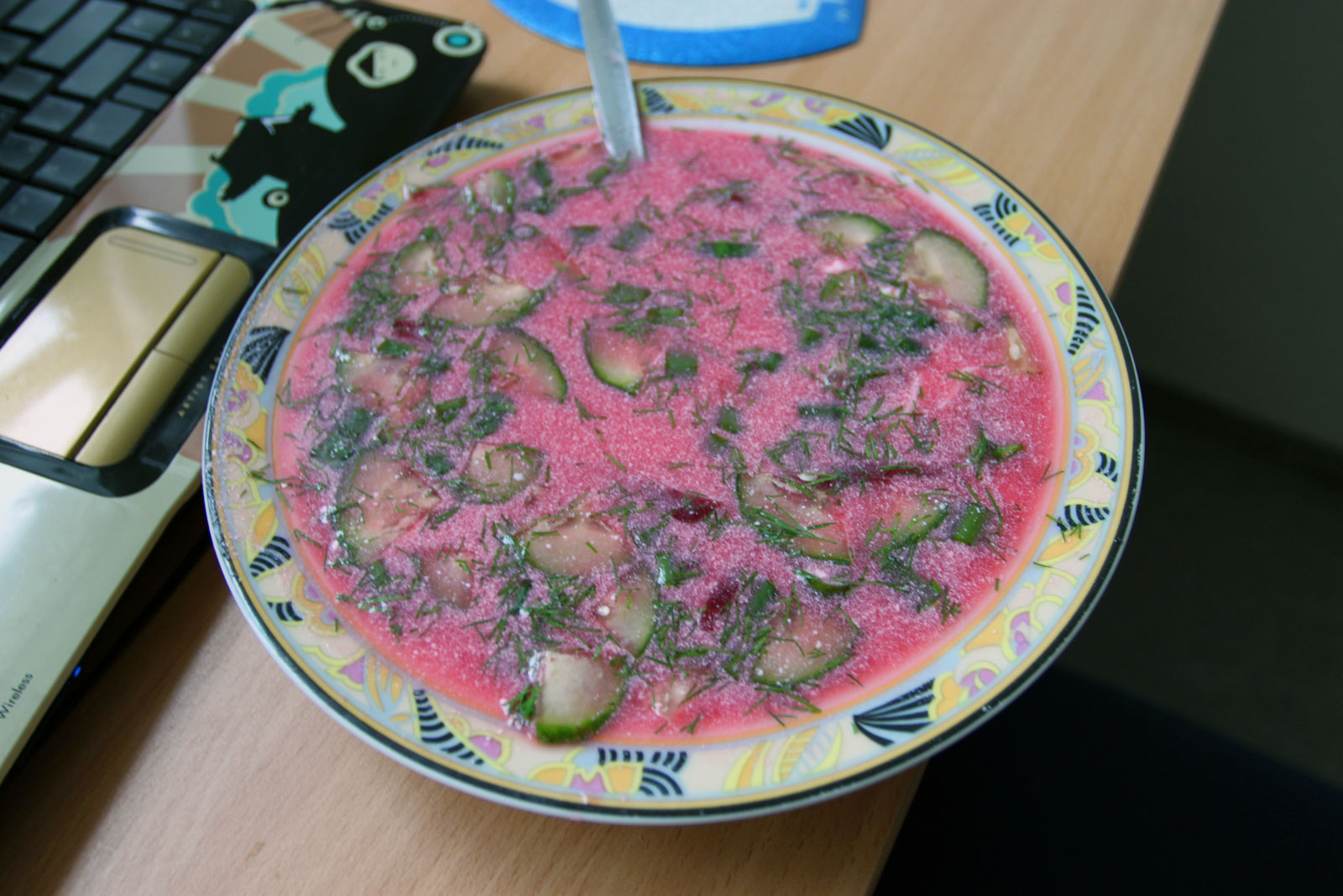 Holodnik, cold borscht